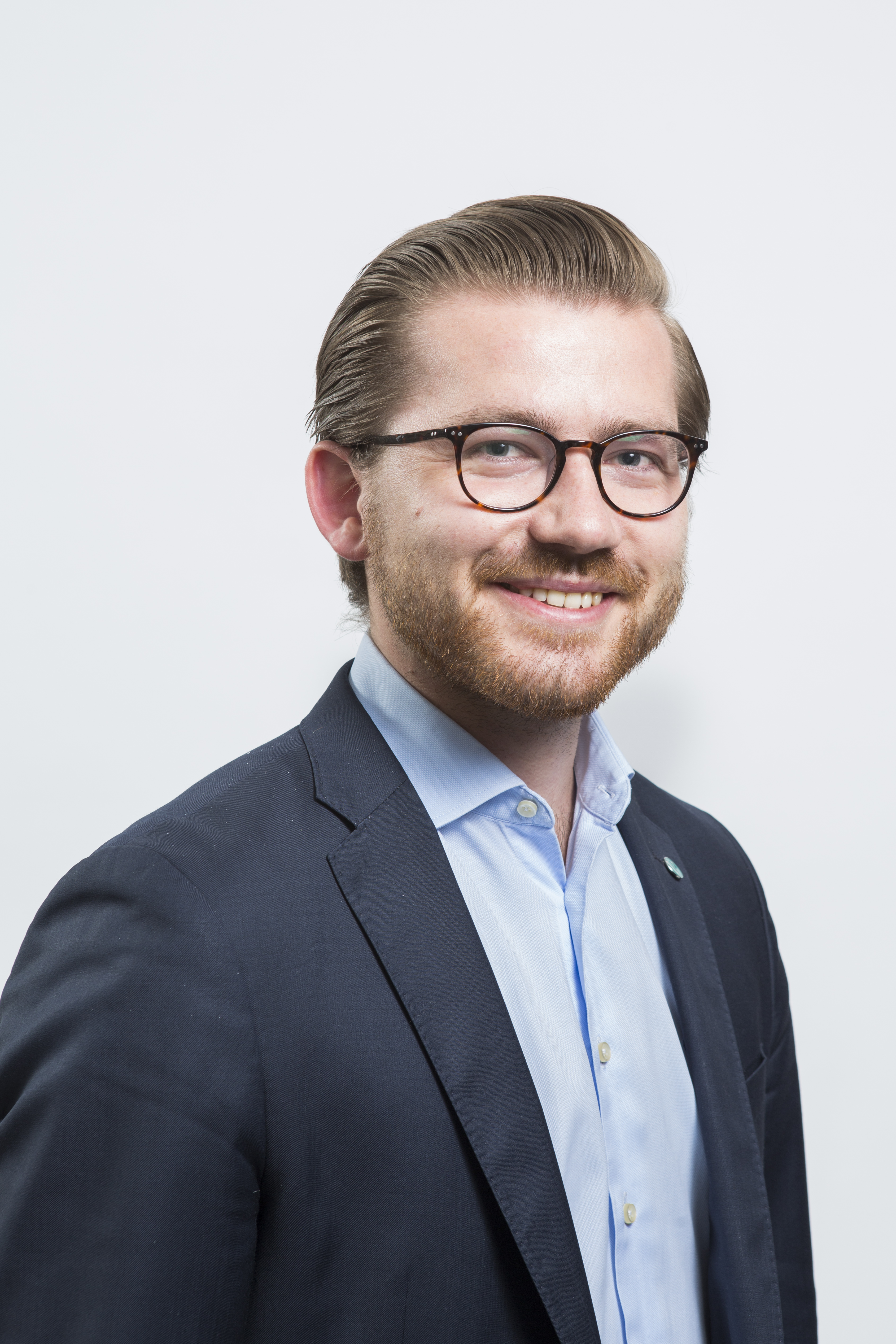 Sveinung Rotevatn